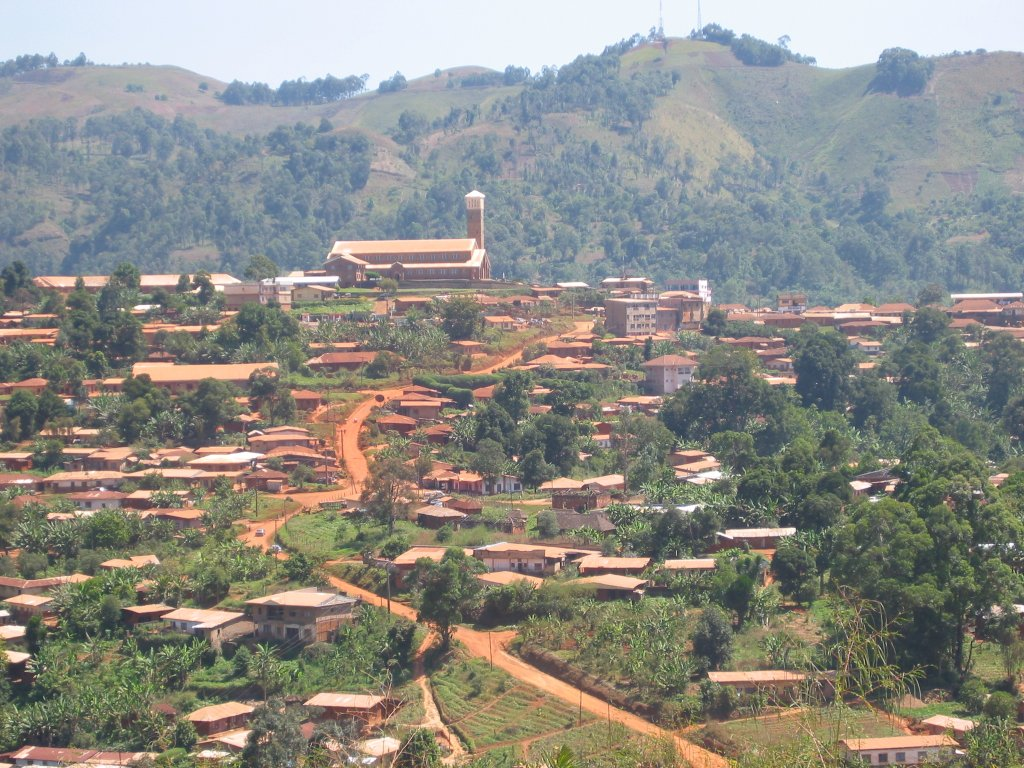 A view of Kumbo, Cameroon with the Catholic Cathedral in the background.